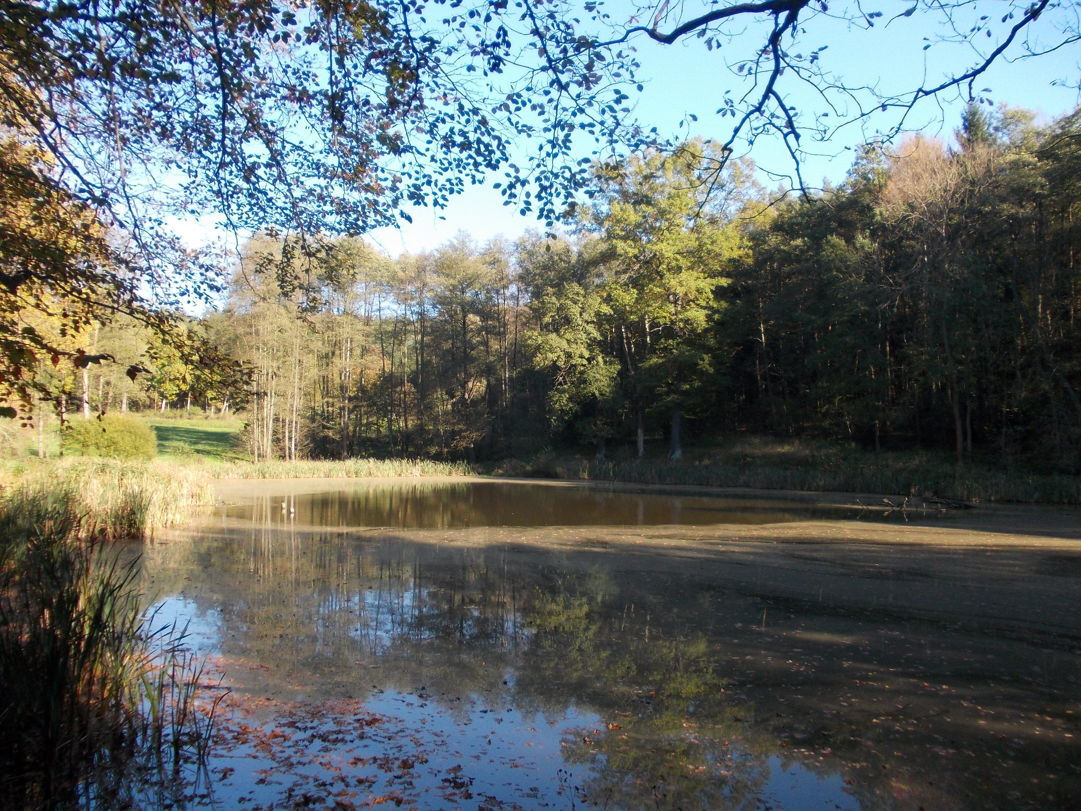 Braupfannenteich in the Thuringian part of the Zeitz Forest nature reserve (Gera, Thuringia)